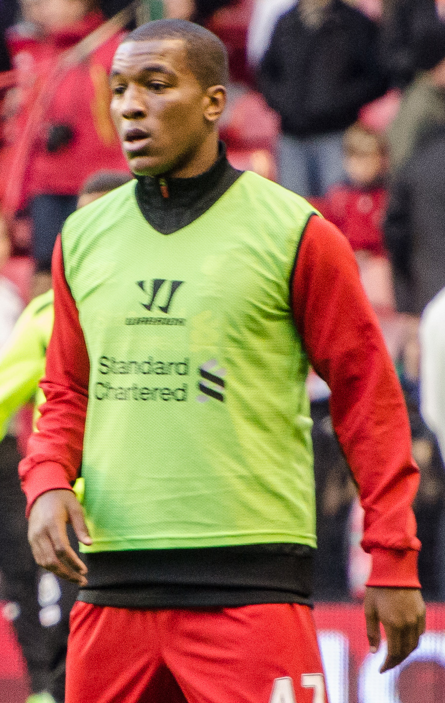 Andre Wisdom warming-up before match between Liverpool FC and Wigan Athletic at Anfield Road on 17 November 2012.